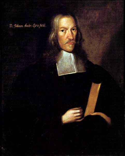 Imported public domain image from the German wikipedia